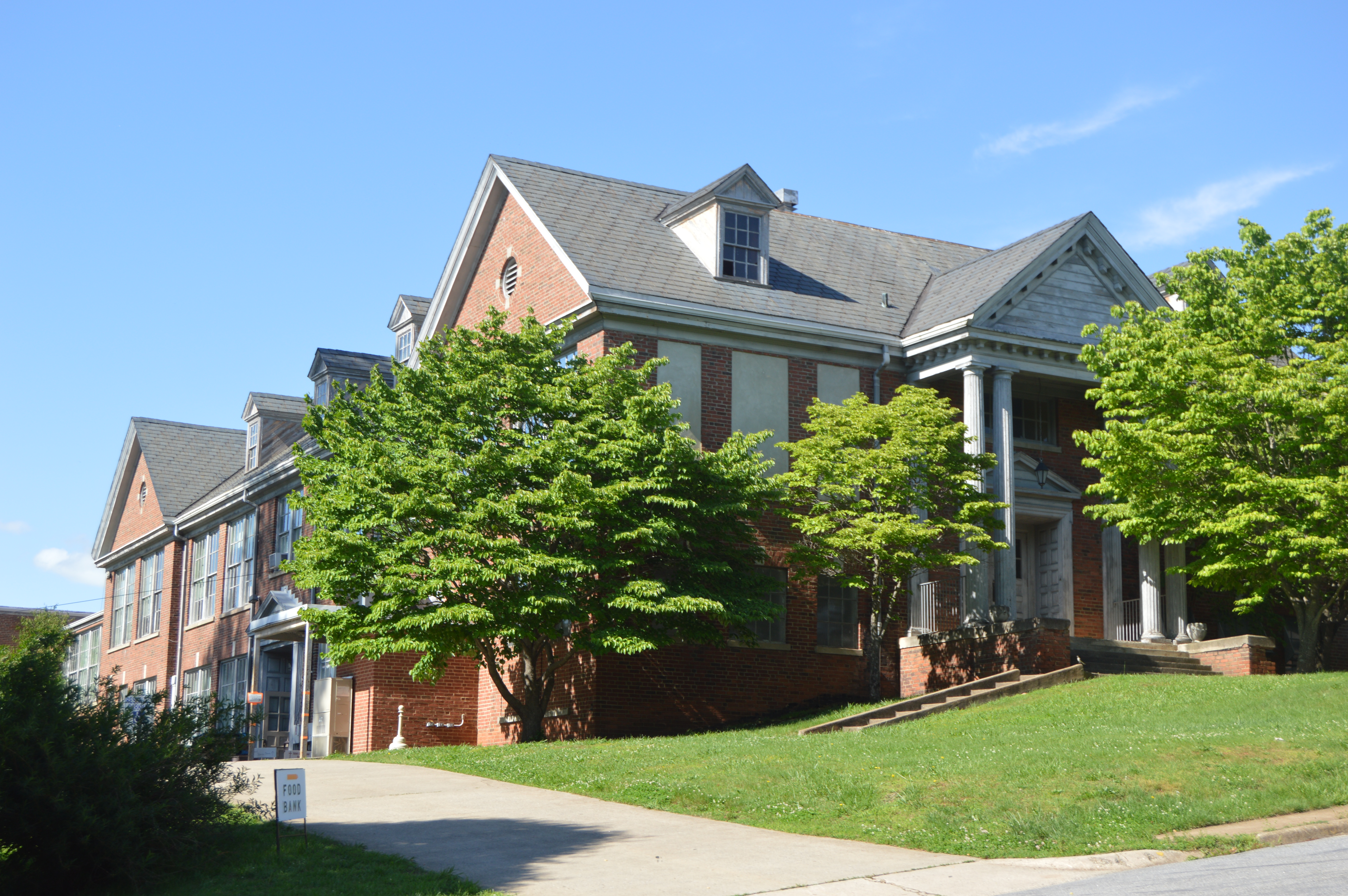 Front and western side of the former Fieldale School (now a church, Victory International Ministries), located at 100 Marshall Way in Fieldale, Virginia, United States. Built in 1941, it is part of the Fieldale Historic District, a historic district that is listed on the National Register of Historic Places.